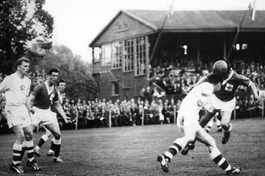 Halmstad 8 June 1958. Northern Ireland against Czechoslovakia at Örjans vall in Halmstad. Wilbur Cush of Northern Ireland did the only goal 20 minutes into the game.